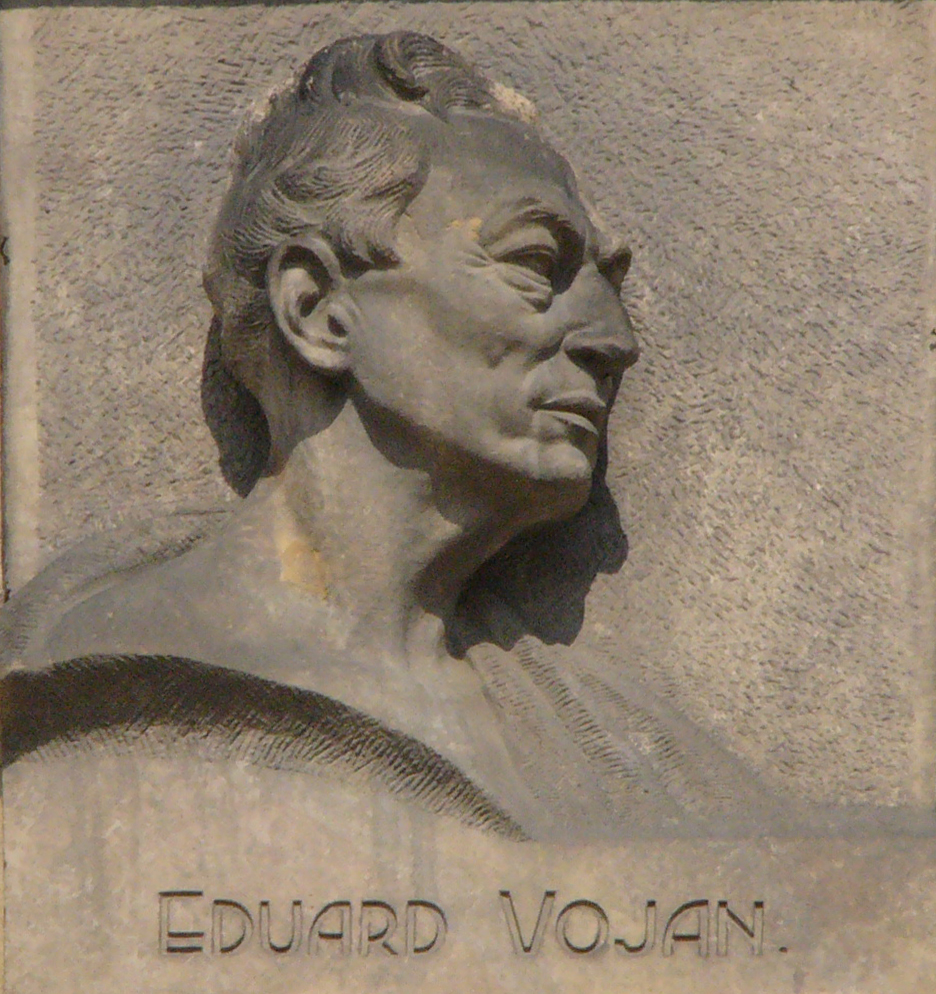 Relief of Eduard Vojan in Olomouc (Czech Republic) by Julius Pelikán.